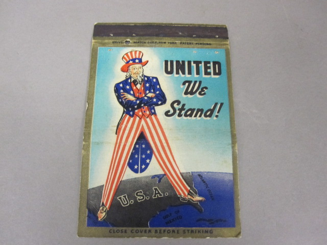 Accession: 80-188-CG Match Book Cover Match Book Cover, World War II, Uncle Sam. Collection of Curator Branch, Naval History and Heritage Command.